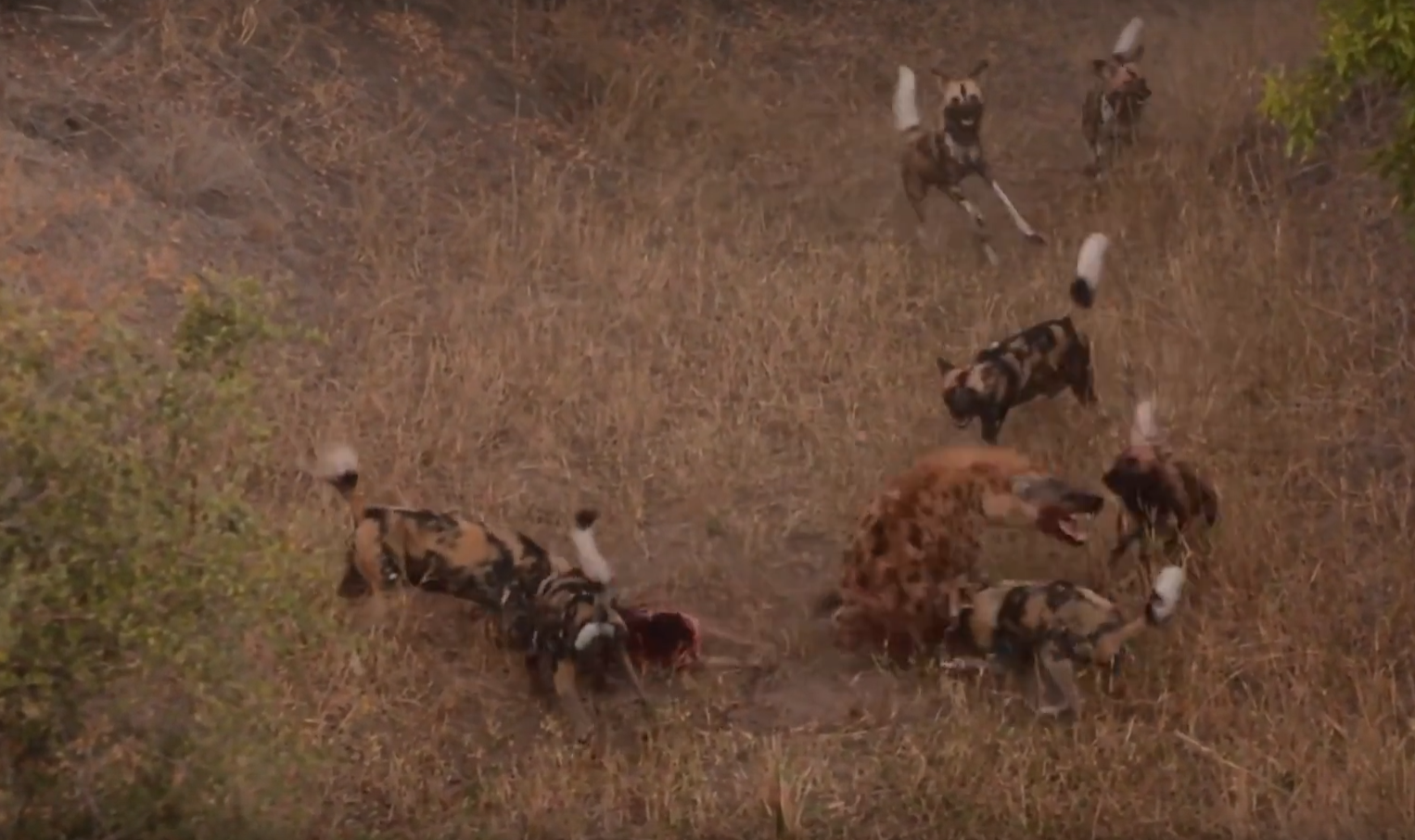 African wild dogs defending their kill from spotted hyenas in Kruger National Park